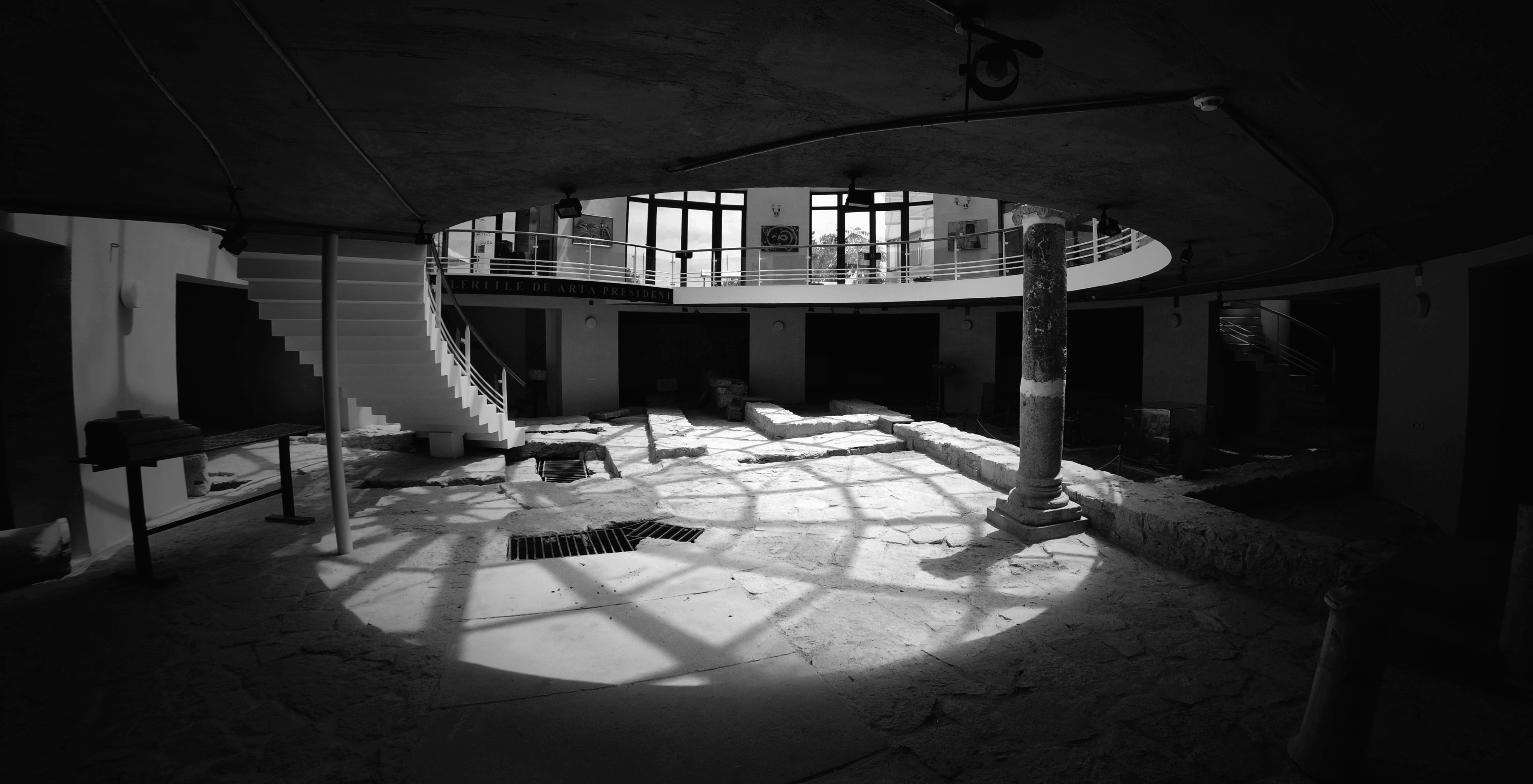 4th-7th century AD Roman-Byzantine archaeological display from the ancient city of Callatis showing a stone paved street, houses and a "horreum" [public warehouse], housed in the basement of President Hotel in Mangalia [site found during 1993 excavations] 01